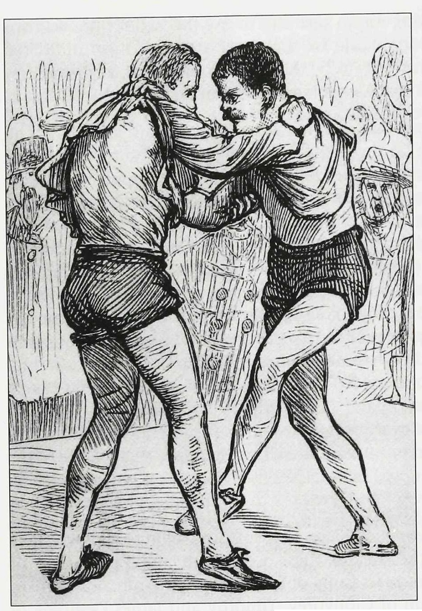 A sketch of a Collar and Elbow wrestling match by artist W.A. Rogers, taken from a larger collage of police athletics contests from 1878.